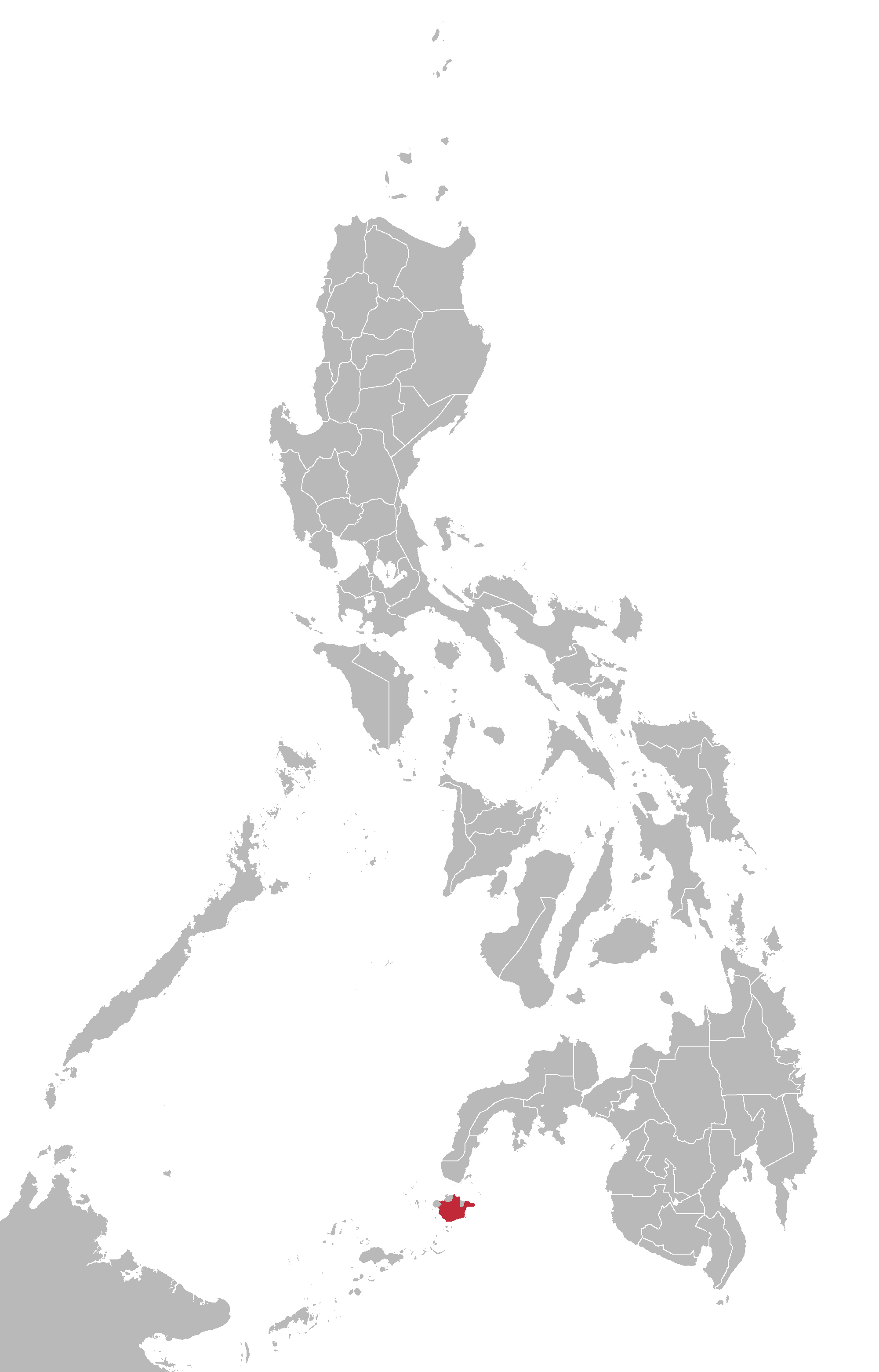 Yakan language map based on Ethnologue maps